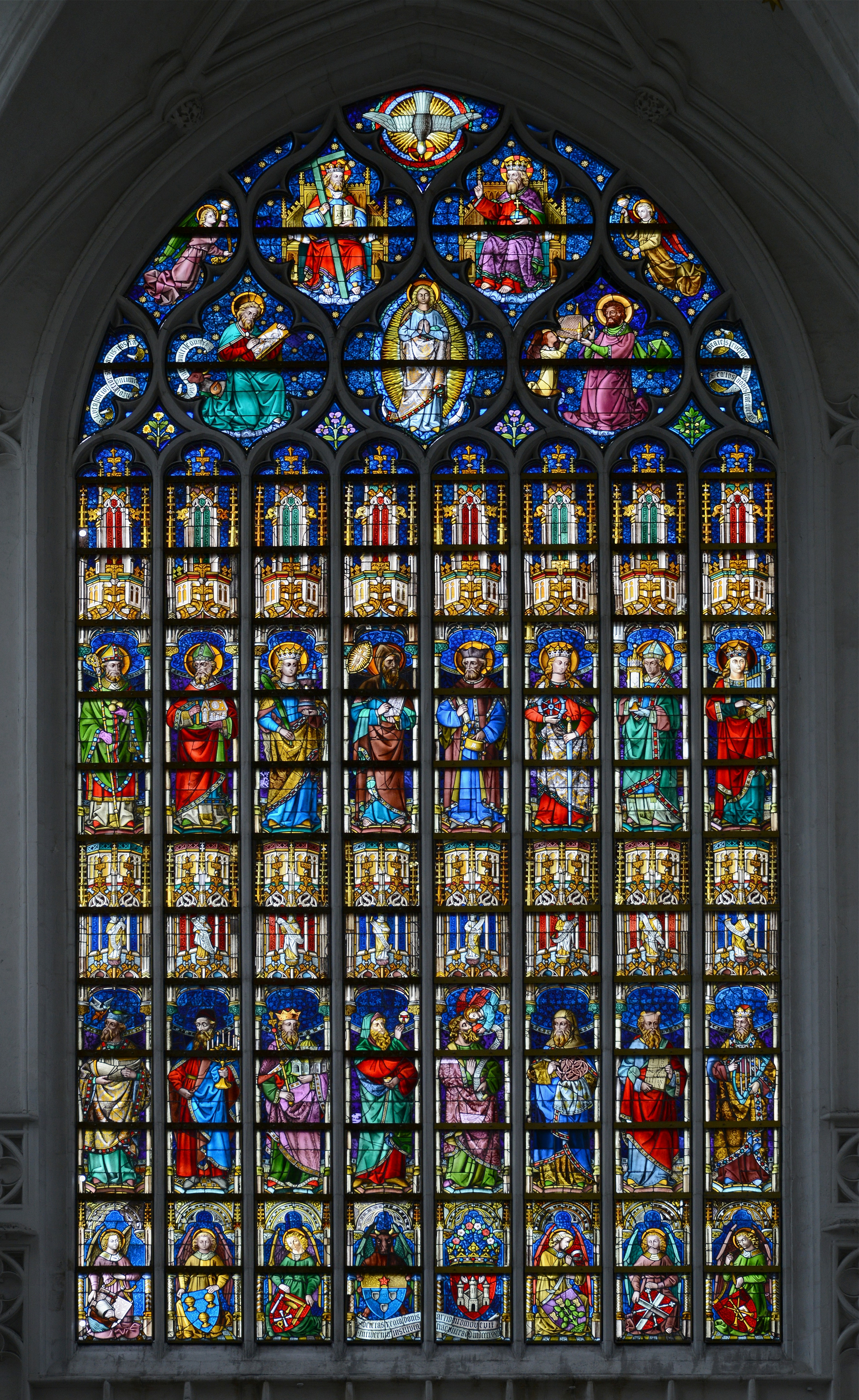 Stained glass window in the Cathedral of Our Lady, Antwerp. The glorification of God through the Arts, by Jean de Bèthune, 1872